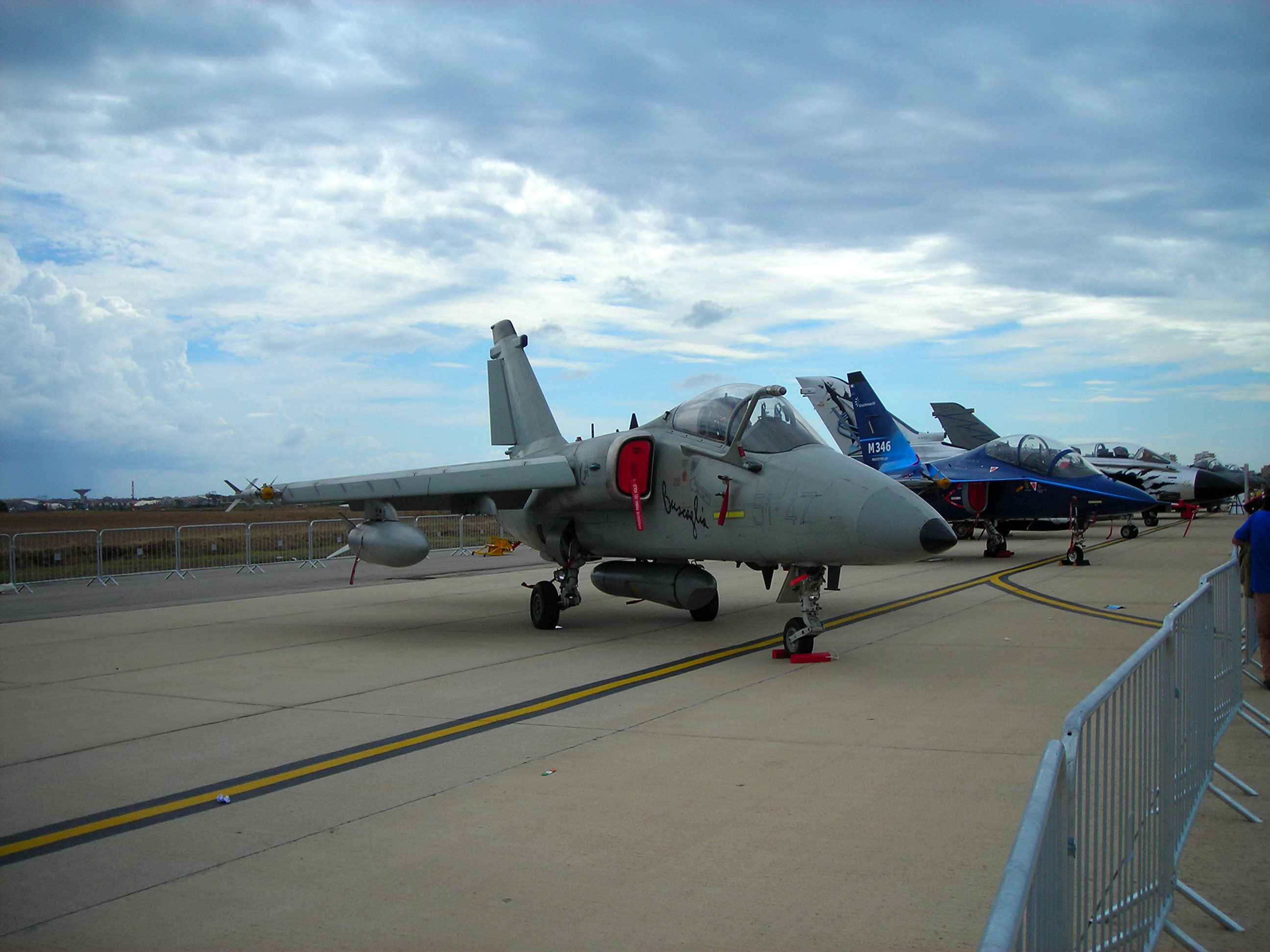 The Italian-Brasil light attack aircraft AMX of Italian Air Force. Picture taken during "Giornata Azzurra" 2006 (Italian Air Force airshow) at Pratica di Mare AFB, Italy.